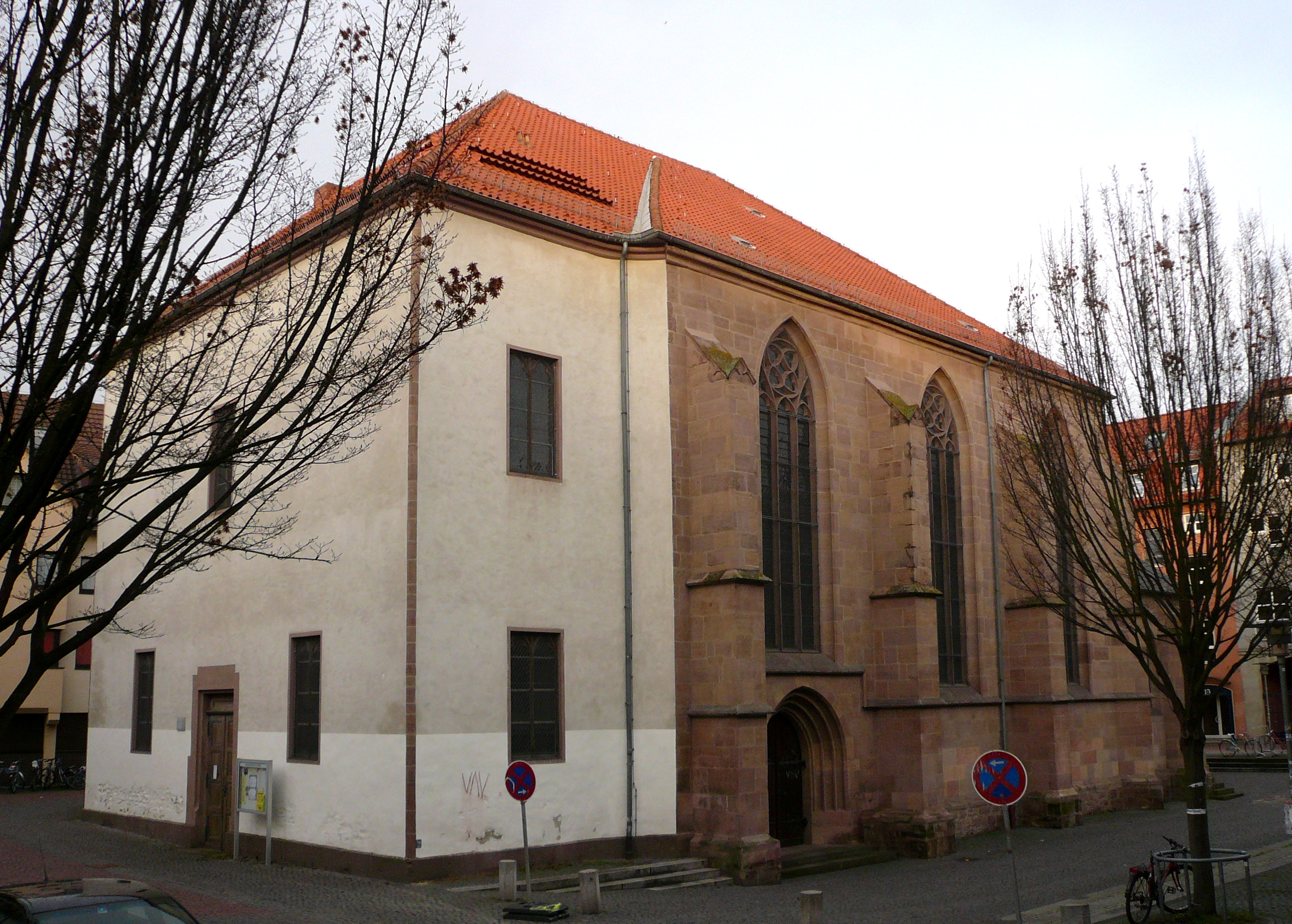 University church St. Nikolai, Goettingen